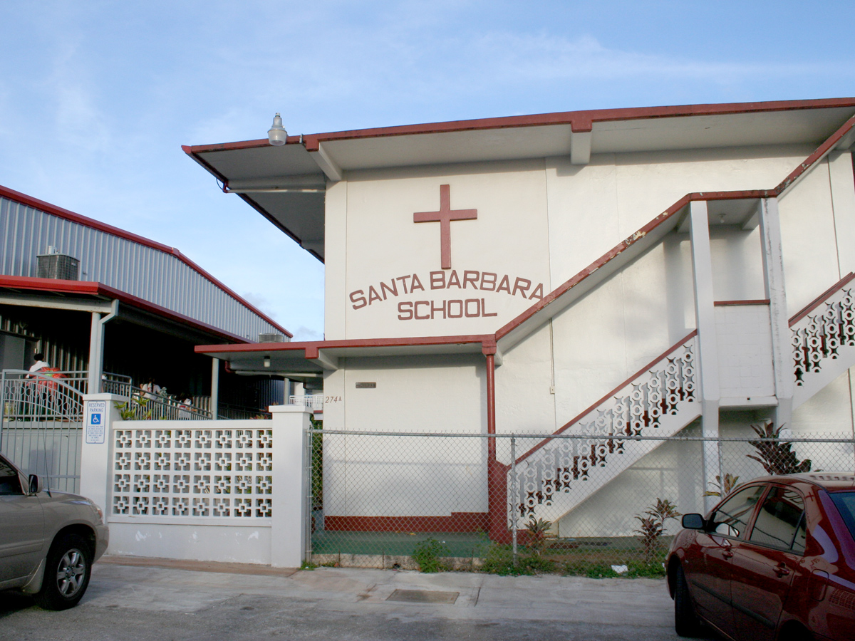 Santa Barbara School, Dededo village's only Catholic school, sits along the village square across from the public library, mayor's office, community center and church. Tanya M.C. Mendiola/Guampedia